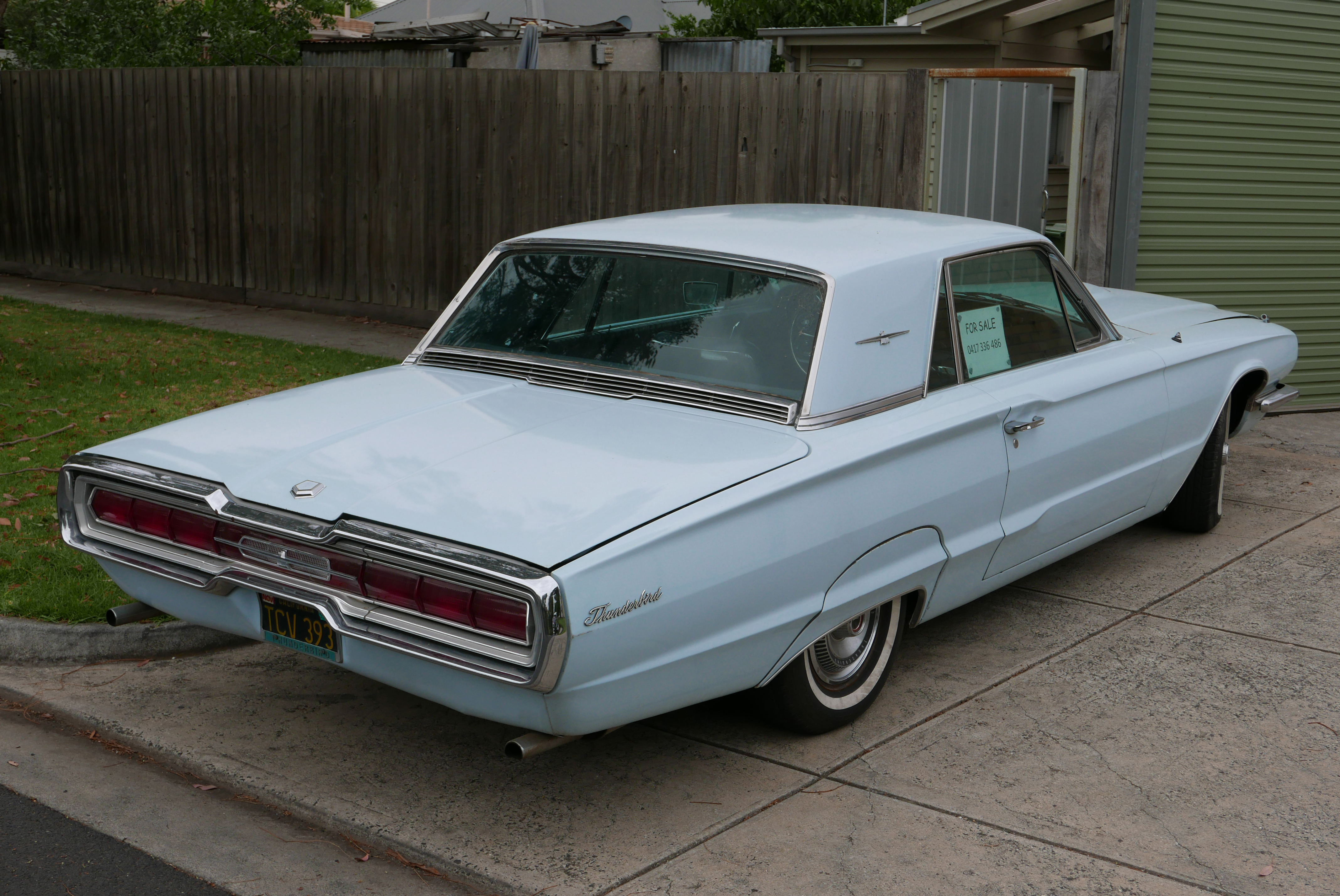 1966 Ford Thunderbird 428 coupe. The year and engine details were obtained from an online sales advertisement for this car. Photographed in Coburg, Victoria, Australia.